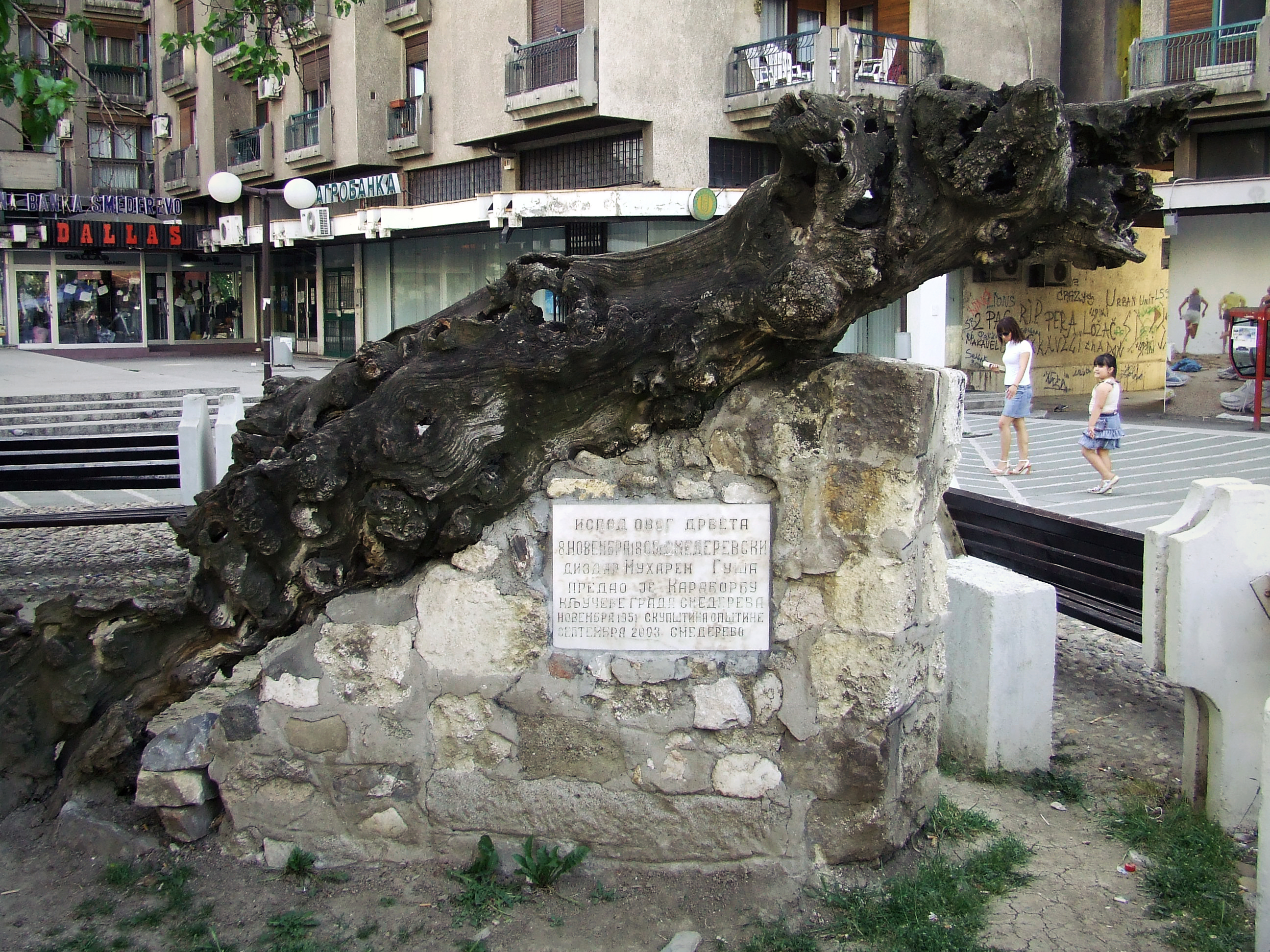 Memorial tablet on Karađorđev dud. See File:Karađorđev dud.jpg for more details. The text: Испод овог дрвета 8. новембра 1805. смедеревски диздар Мухарем Гуша предао је Карађорђу кључеве града Смедерева. Скупштина општине Смедерево; новембра 1951; септембра 2003